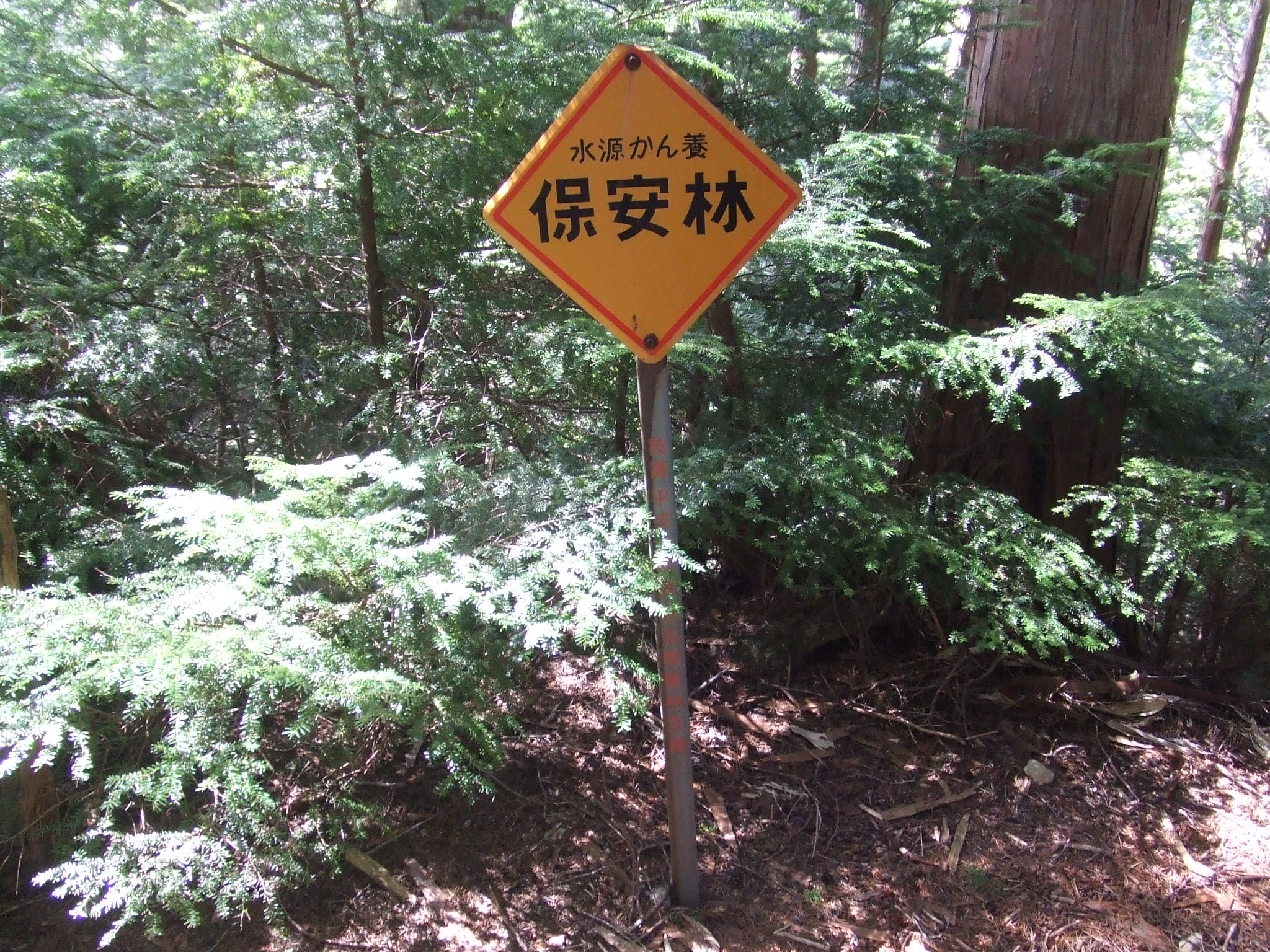 水源かん養保安林を示す標識（岐阜県下呂市）Headwater Conservation Forest in Gero City, Gifu Pref., Japan